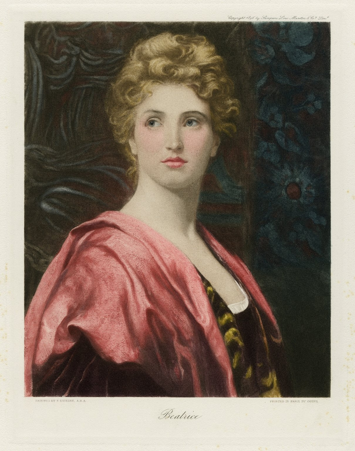 Image of Beatrice, from The Graphic Gallery of Shakespeare's Heroines